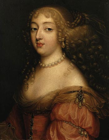 Portrait of a Lady (Laura Mancini (1636-1657), Duchesse of Mercœur?) in a red dress with a pearl necklace and earrings